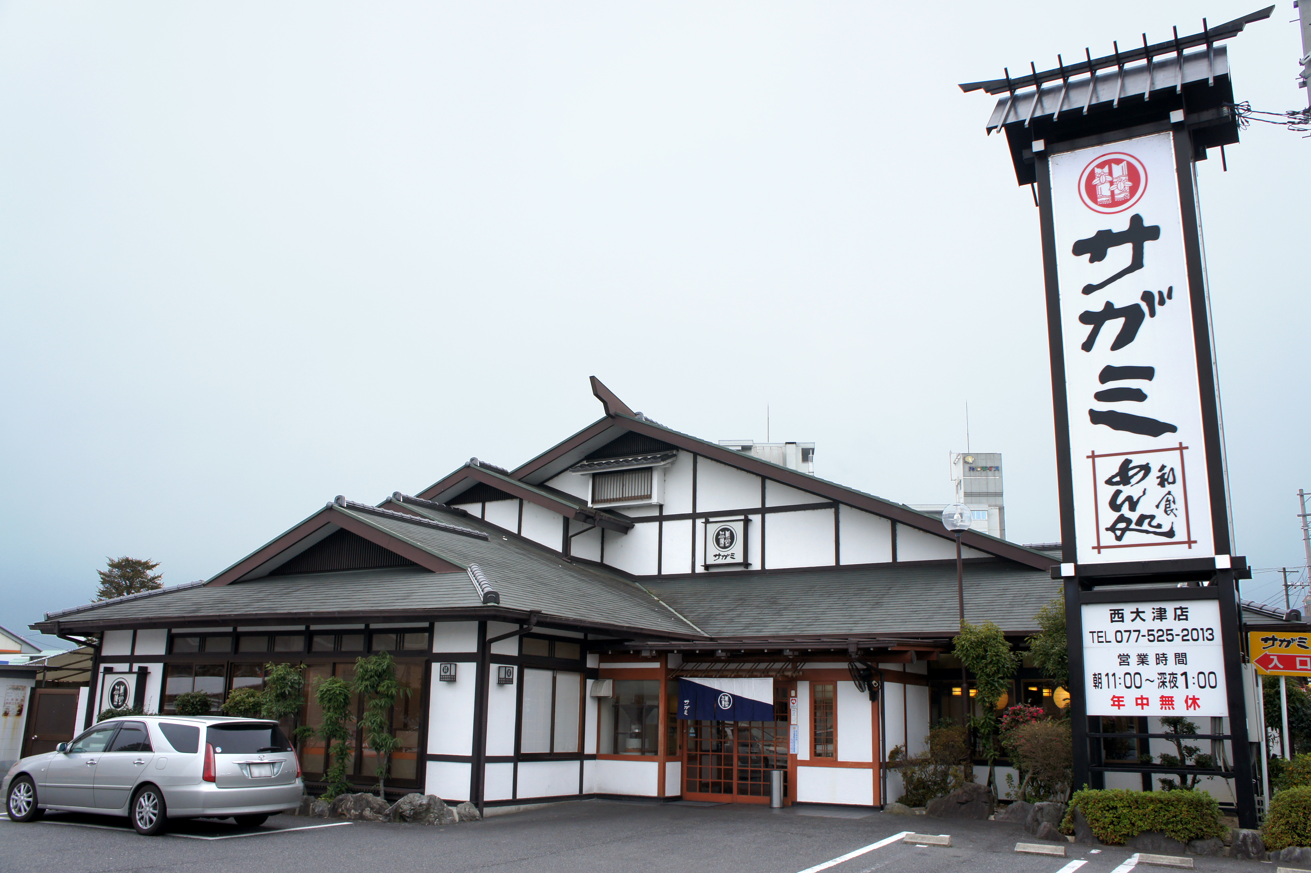 Sagami Nishi-Otsu, 32-3 Chagasaki Otsu-City Shiga JAPAN